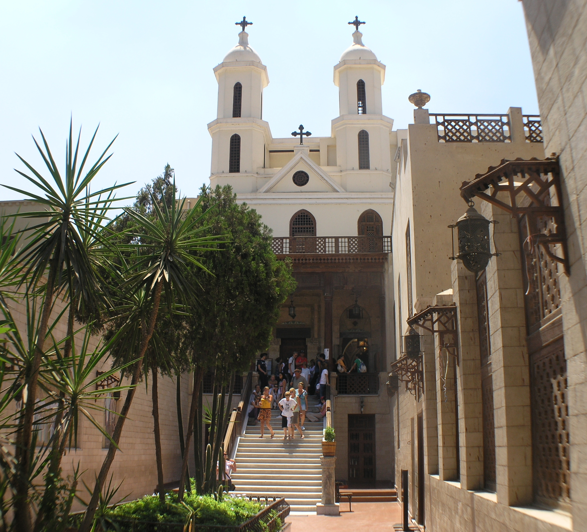 Cairo - Coptic area - Hanging Church from courtyard